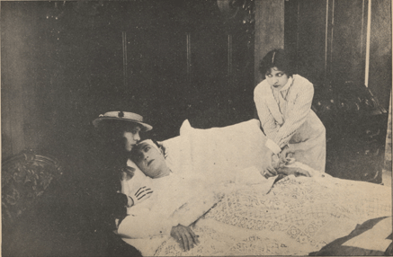 Newspaper portfolio image of 1915 film, The Diamond from the Sky. Caption Esther at Arthur's bedside, while Vivian, unnoticed gives him an injection of the lulling drug.